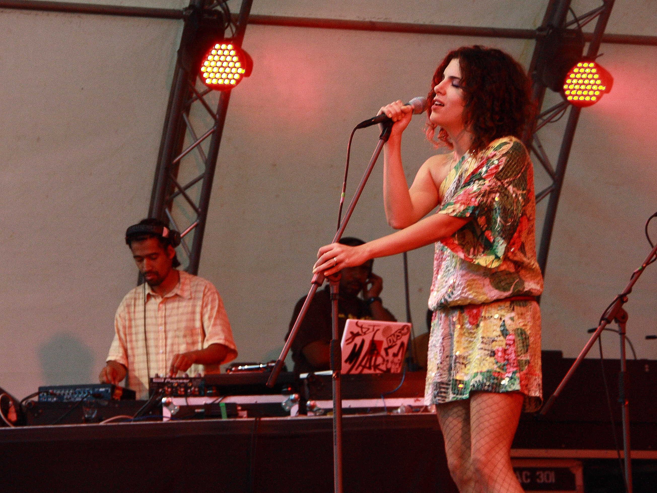 Céu at TFF.Rudolstadt 2010